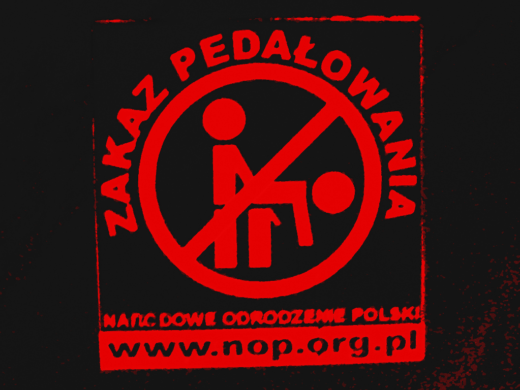 Sticker „Forbid Homosexuality - National Revival of Poland“It is a word play. "pedałować" = kick the treadle (to move foreward) "pedał" = the treadle = a bad word for pedophiles or homosexuals "zakaz pedałowania" means wordly "cycling prohibition".